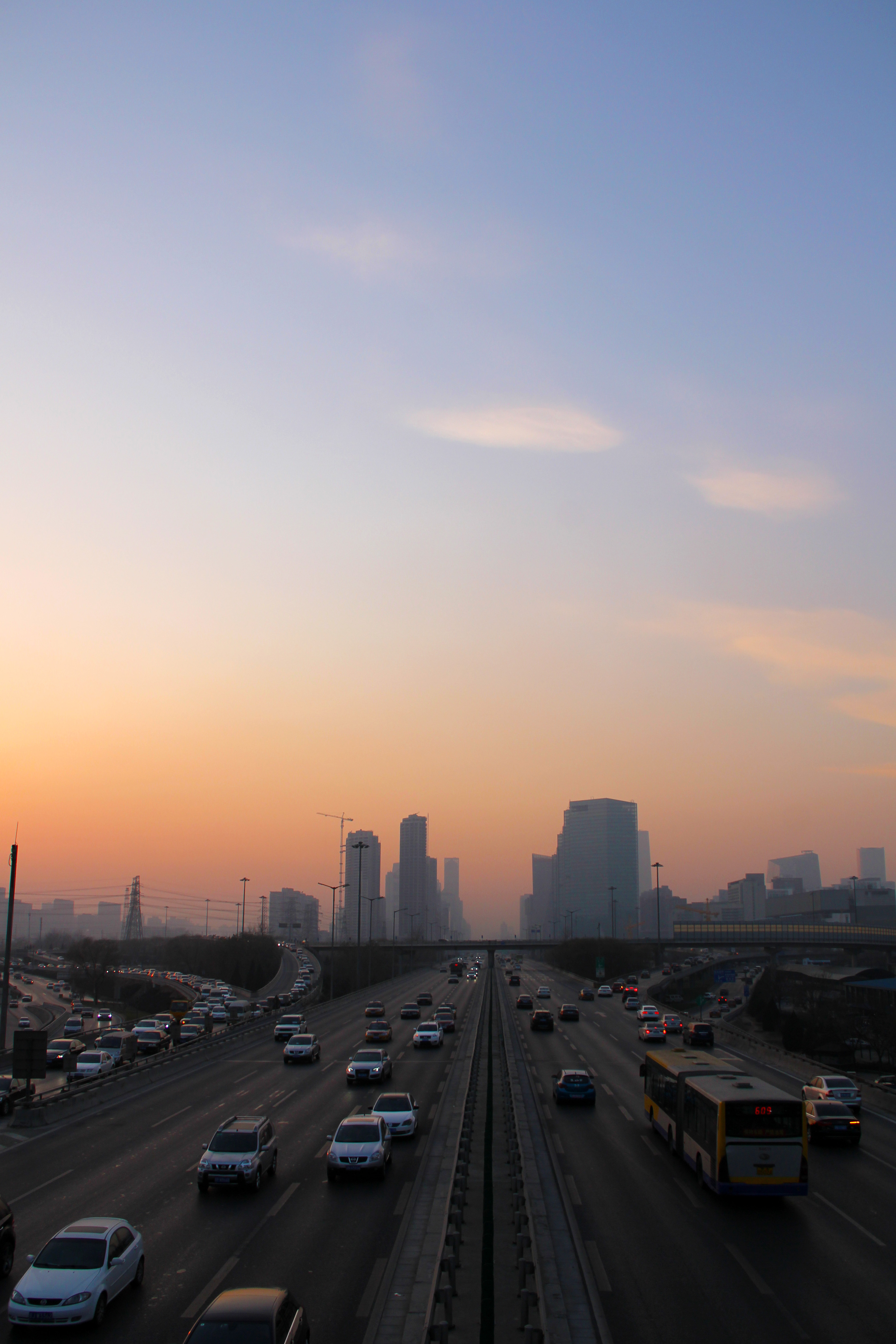 CBD, Beijing at nightfall, from Sihui